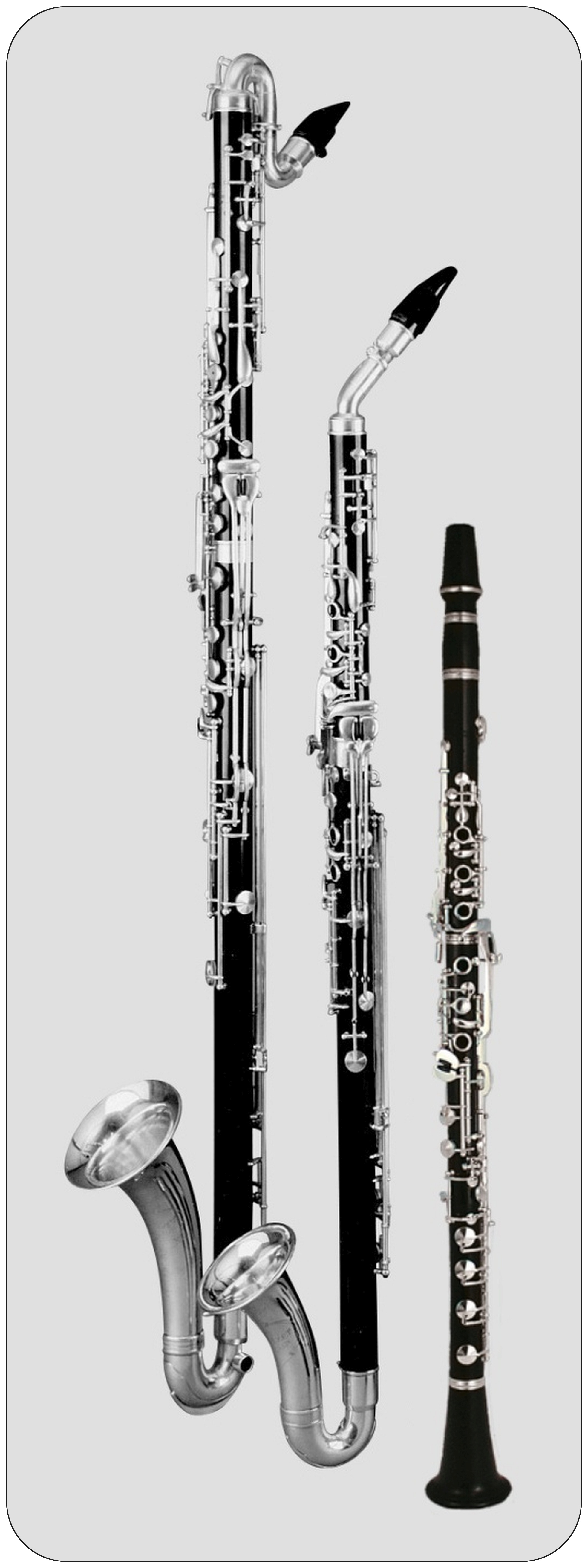 Bass clarinet, basset horn and bassett clarinet in size comparison